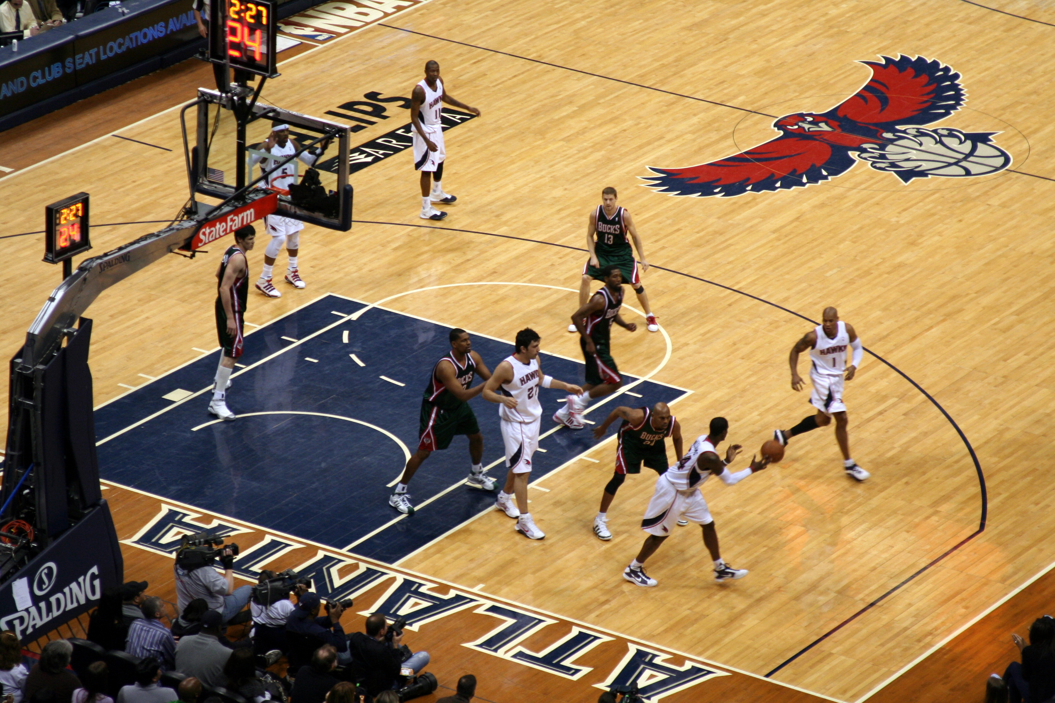 Game between the Atlanta Hawks (in white) and the Milwaukee Bucks